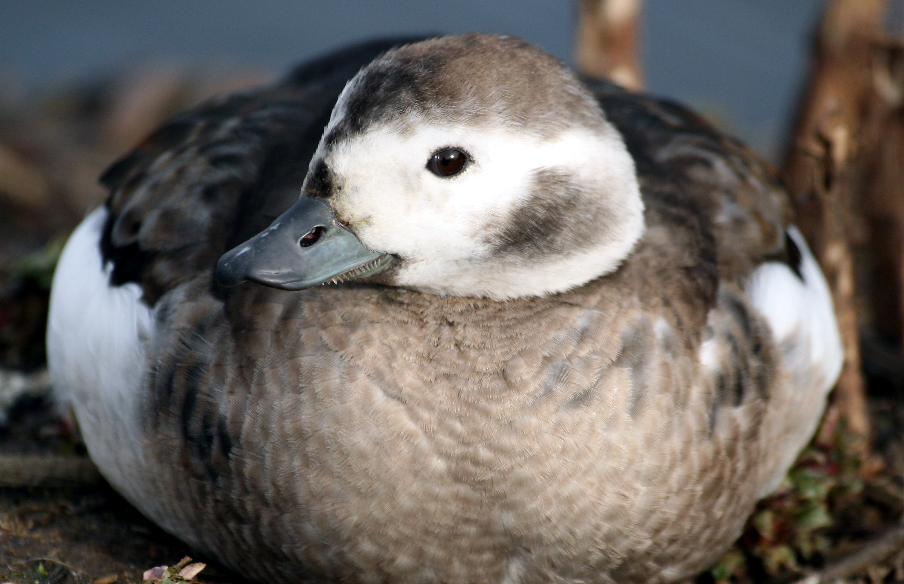 Female long-tailed duck (Clangula hyemalis) at winter